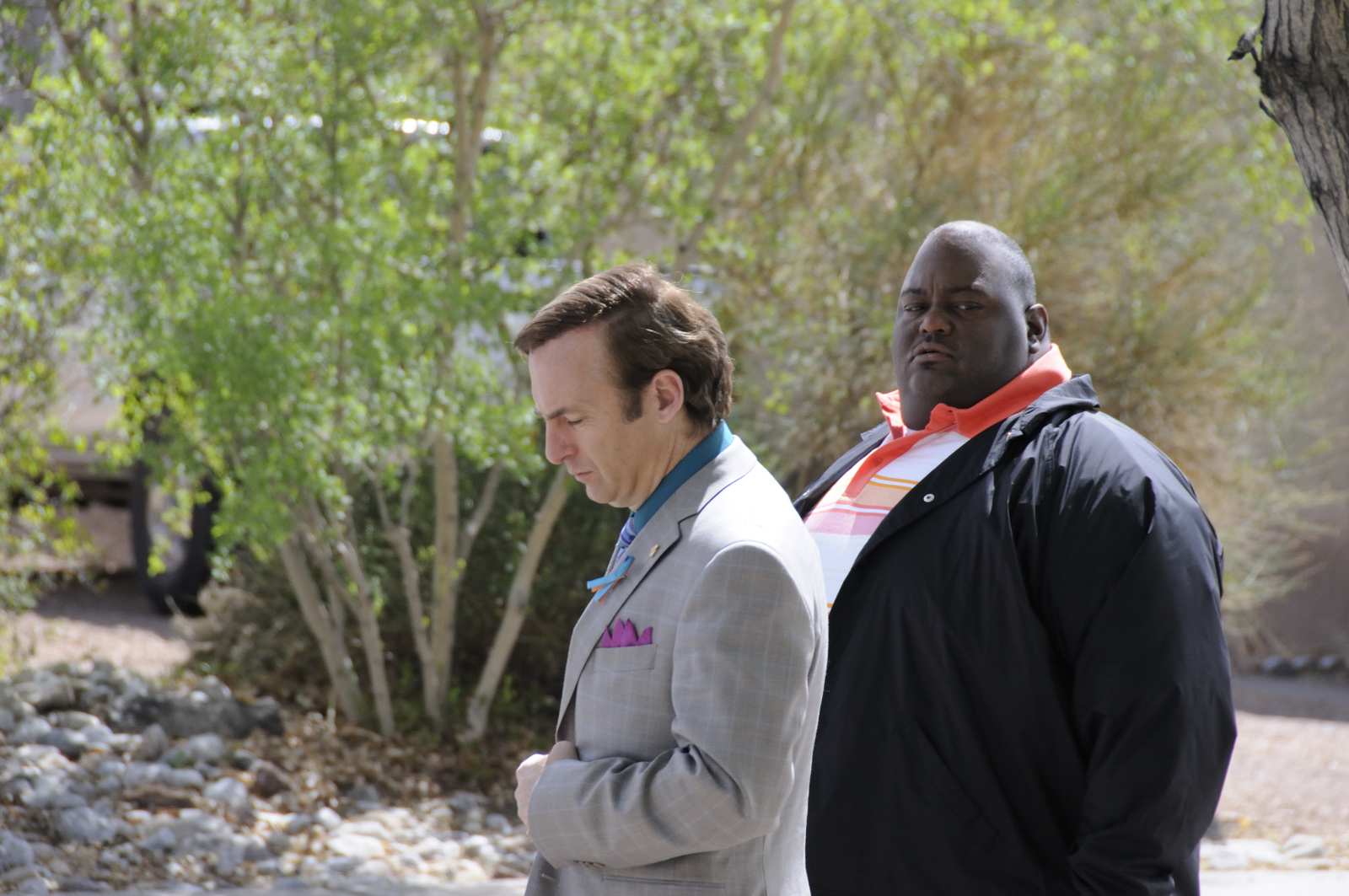 Bob Odenkirk as Saul Goodman and Lavell Crawford as Huell during shooting of the episode 4x08 Hermanos of Breaking Bad.